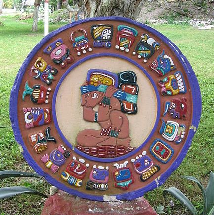 Mayancalender in Mexico, Cozumel